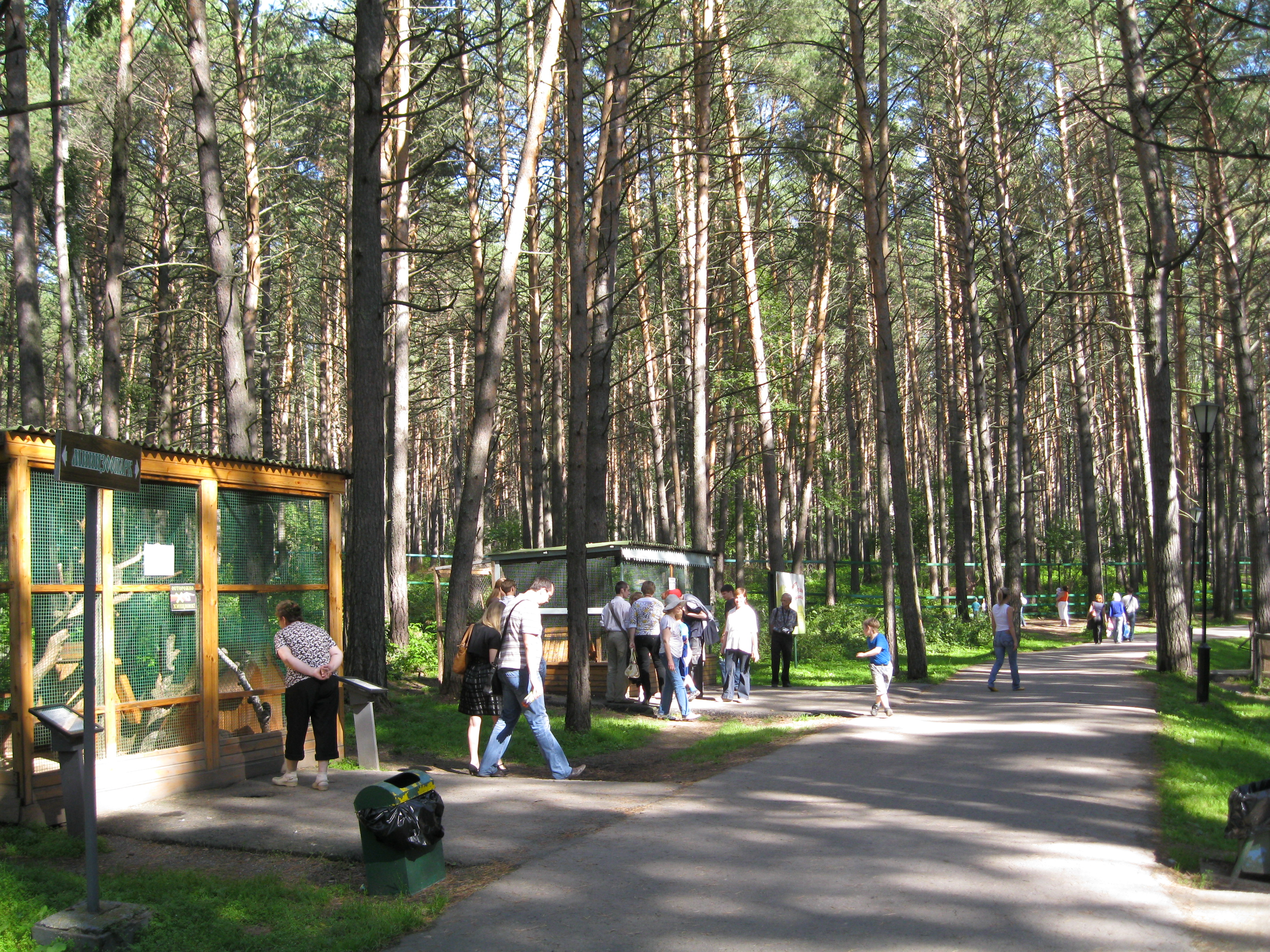 Minizoo in Tomskaya Pisanitsa museum, Kemerovo Oblast, Russia